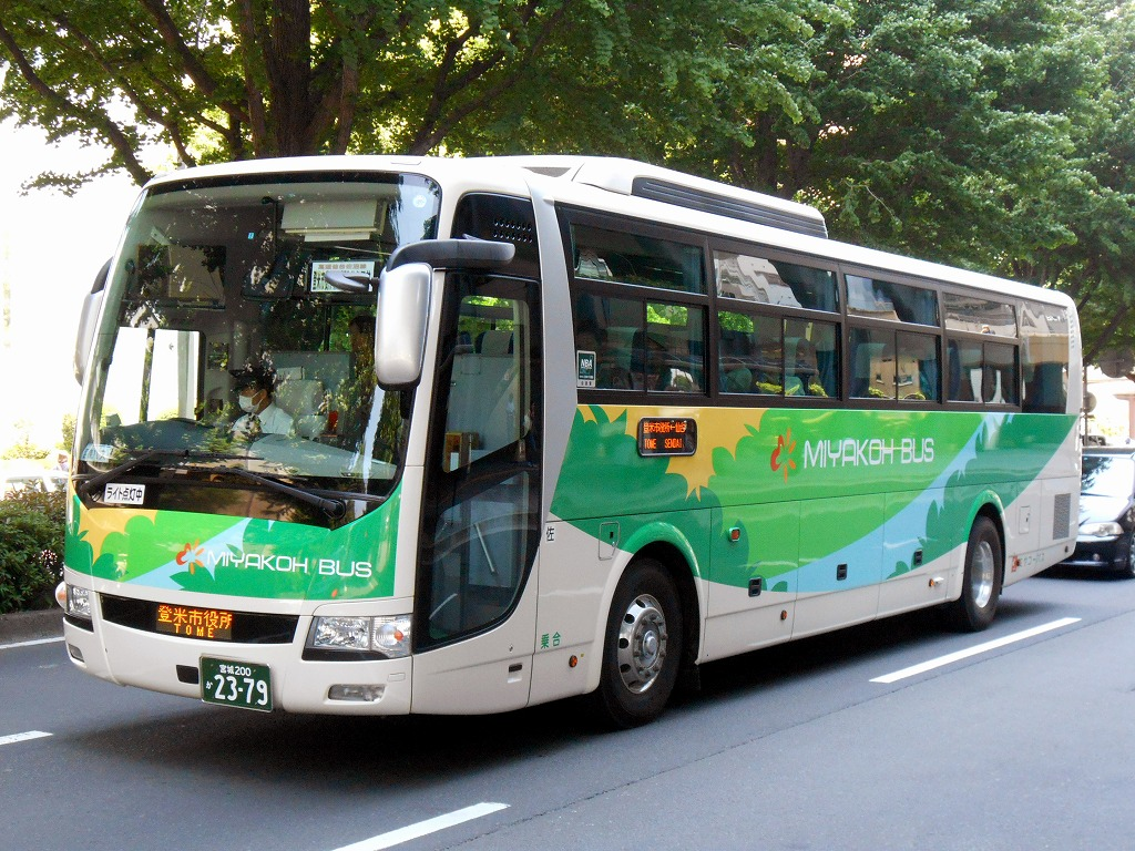 Miyakoh bus Mitsubishi Fuso Aero Ace (QRG-MS96VP) for highwaybus "Sendai- Sanuma (Tome city,Miyagi,JAPAN)"